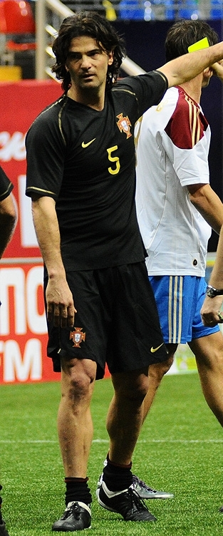 Fernando Couto at 2011 Legends Cup